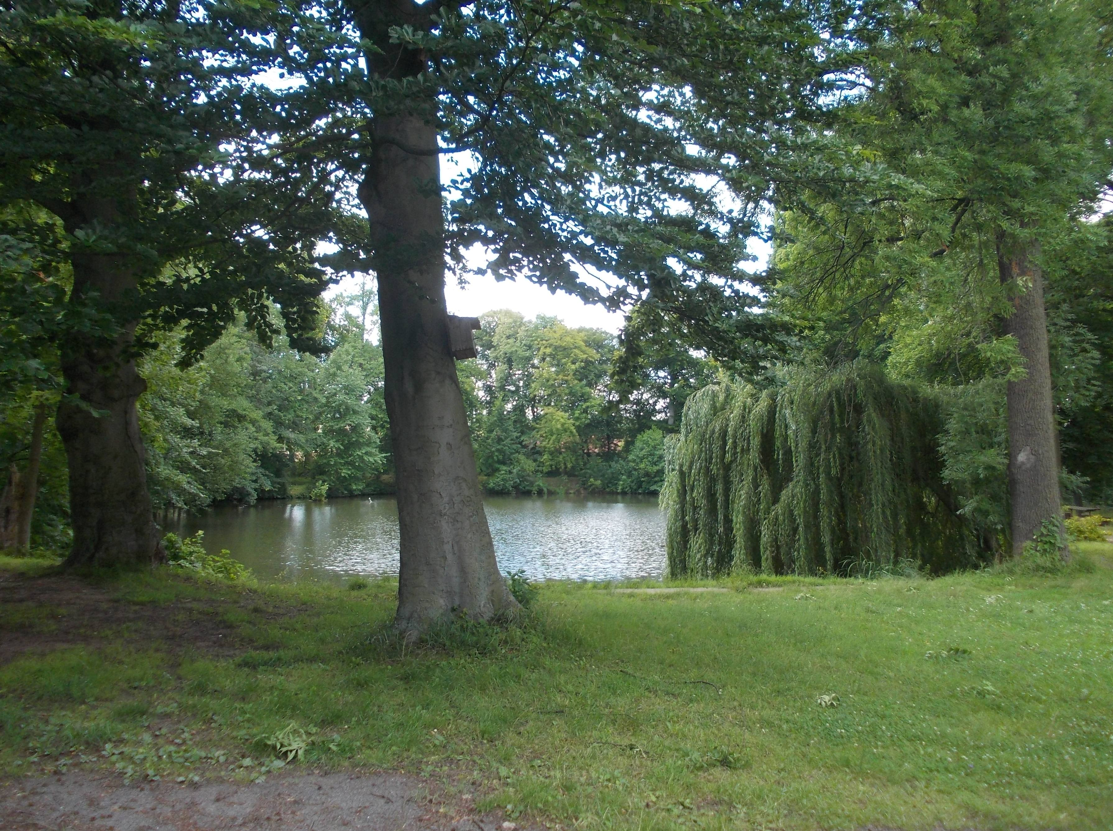 Kitchen Pond in Wohlmirstedt (Kaiserpfalz, district: Burgenlandkreis, Saxony-Anhalt)